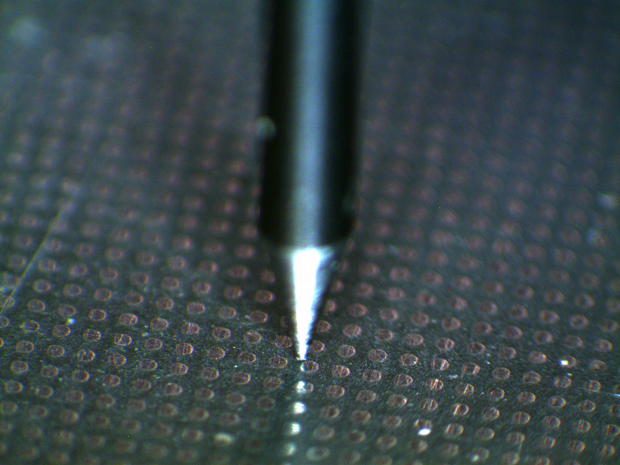 This image is a close-up view of the flat, planar surface of a 2-dimensional linear motor (Sawyer motor) used for motion control applications. This surface is known as a platen. The surface contains small steel cylinders arranged in a grid pattern with the gaps filled with an epoxy resin such that the overall surface is flat to within one-thousandth of an inch. Each circle has a diameter of approximately .25 millimeters An air bearing separates the platen surface from the controlled induction-coil motor unit which moves on top of this surface. The grid allows a full range of finely-controlled motion in two dimensions. The vertical object shown is the tip of a depth gauge, used to measure the deviation of the steel surface from the epoxy surface.